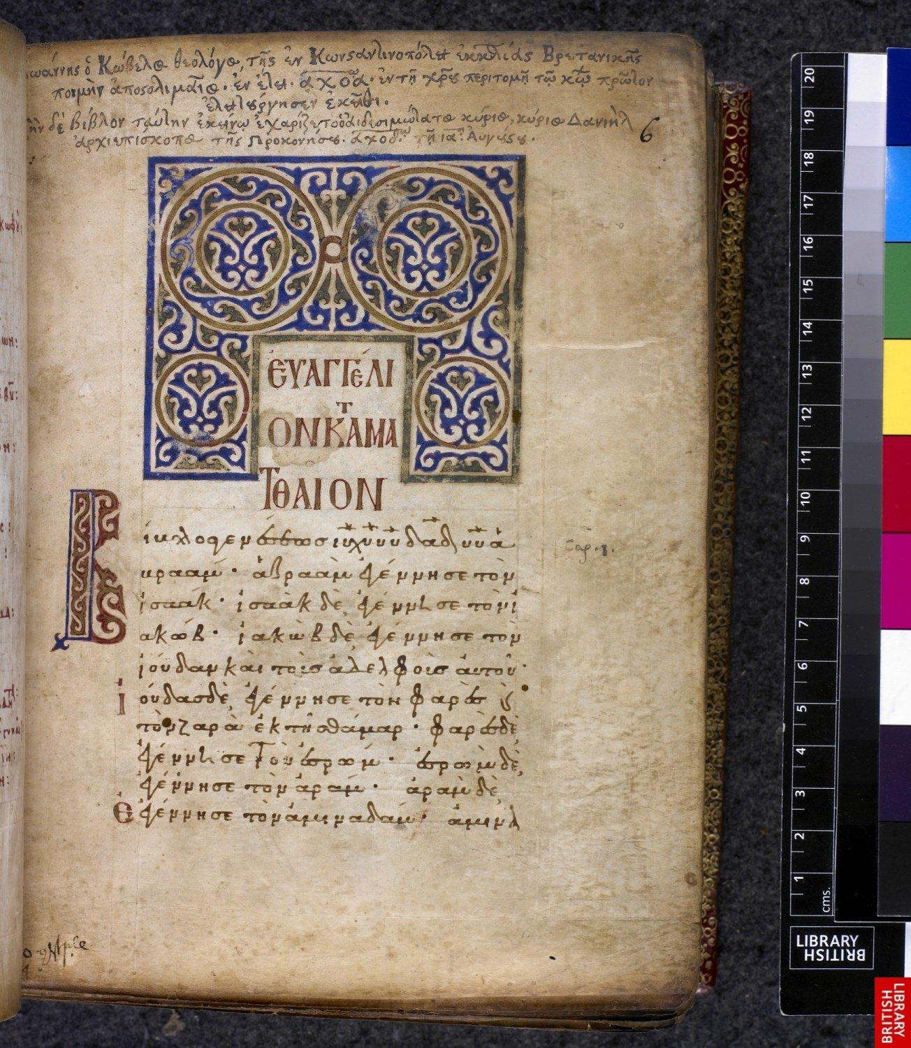 A page from the biblical minuscule manuscript with the first page of the Gospel of Matthew